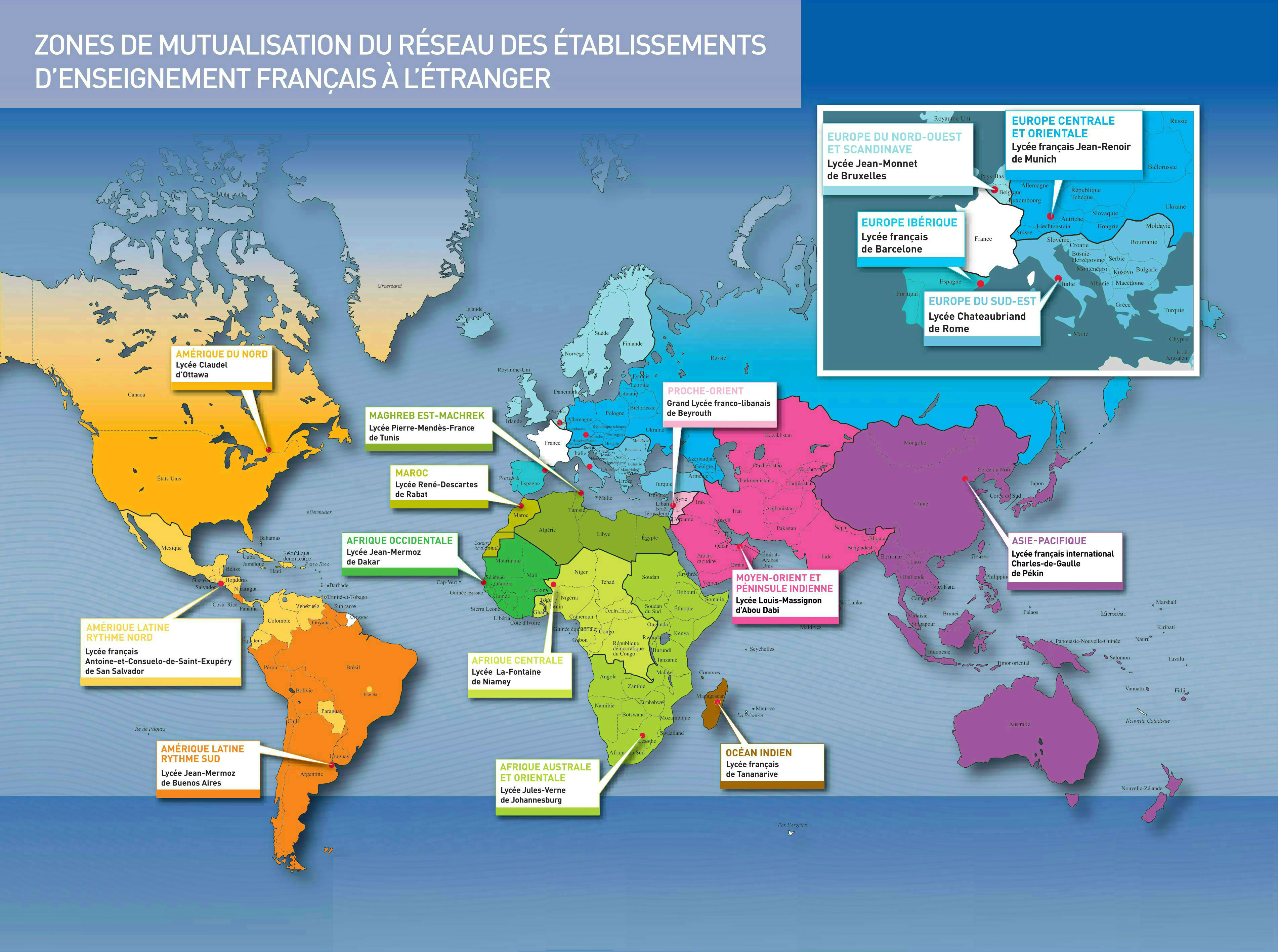 Agency for French Education Abroad - Framework of regional training centers - 2016